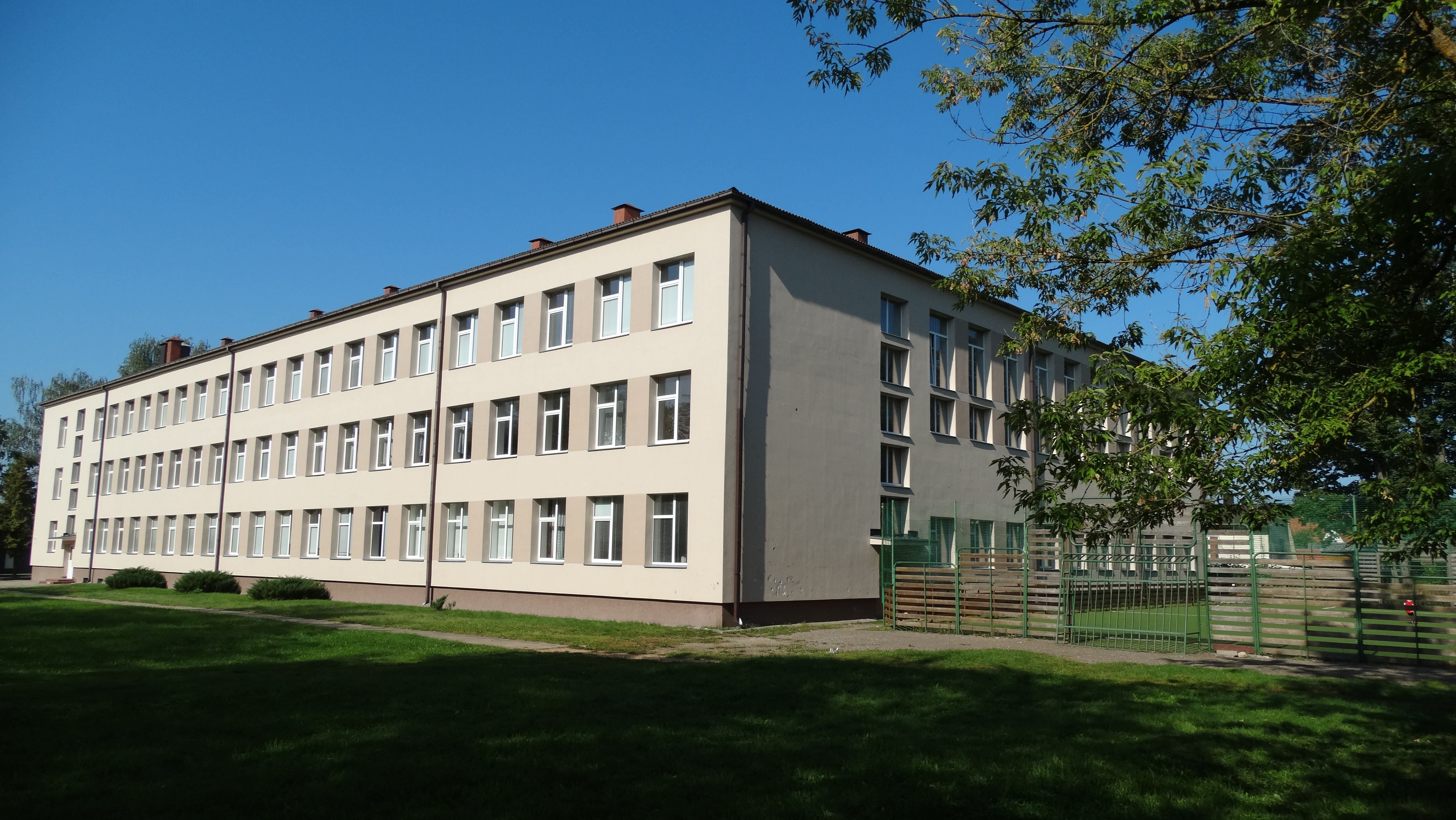 „Santarvė“ School, Zarasai, Lithuania